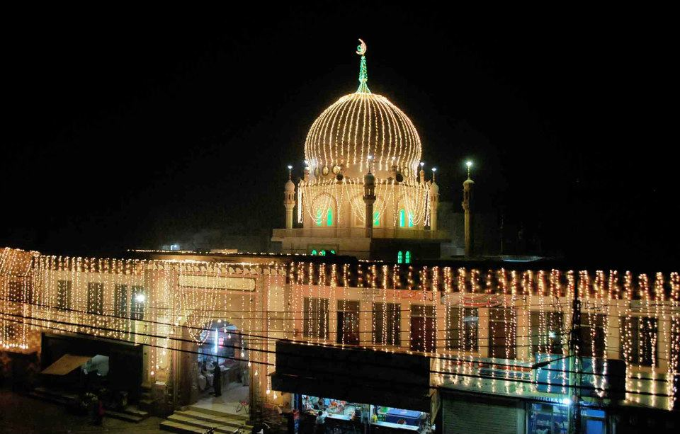 Hazrat Peer Syed Wali Muhammad Shah (sb)Darbar.This Darbar is Very Famous in Multan City Near Dara Ada Chowk